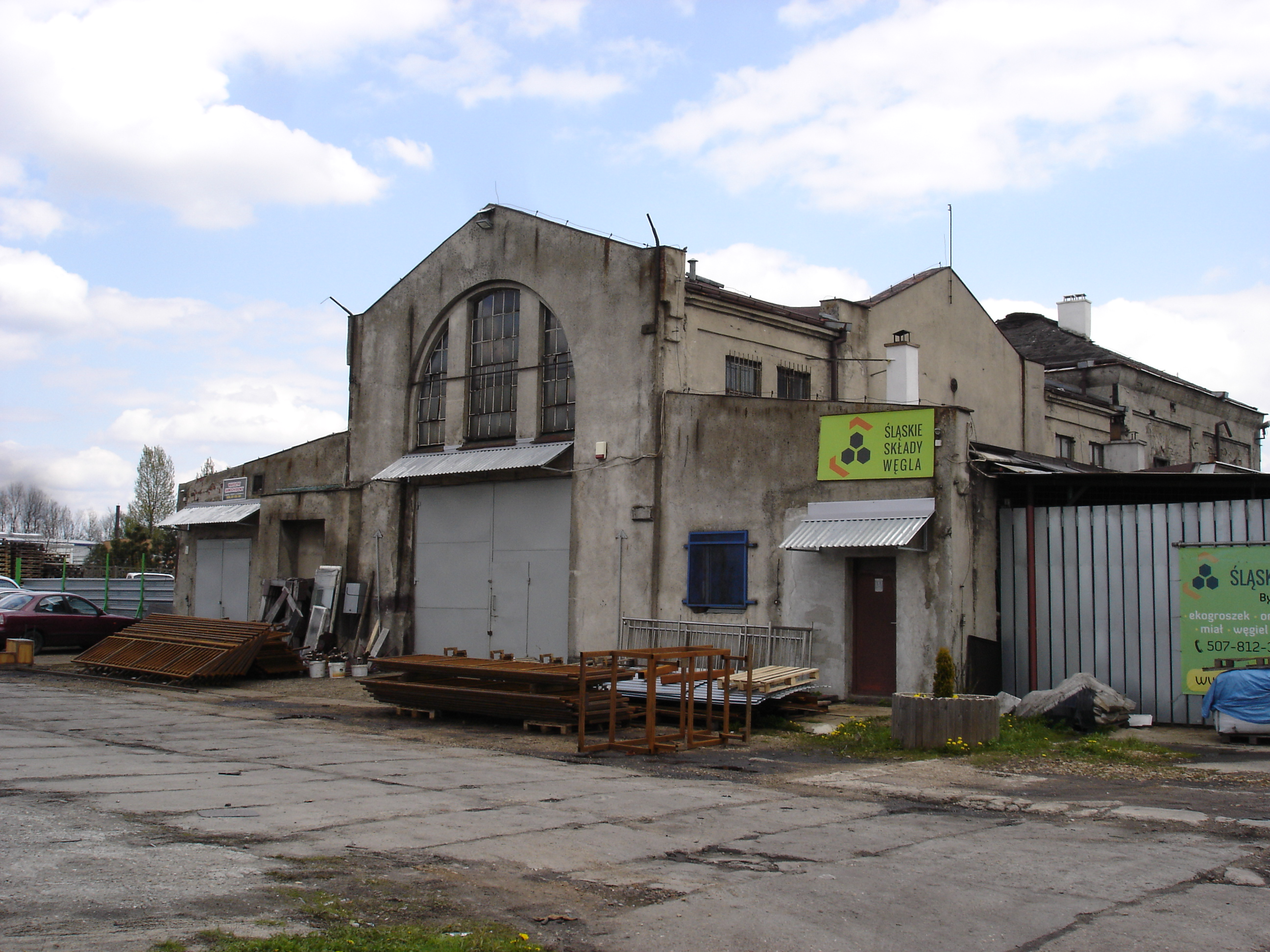 Building (waiting room, ger. Warteraum) near former Gott-gebe-Glück-Schacht of Gräfin Laura coal mine in Königshütte, now automobile repair shop in Chorzów, Kluczborska street 43, Poland, 2017.